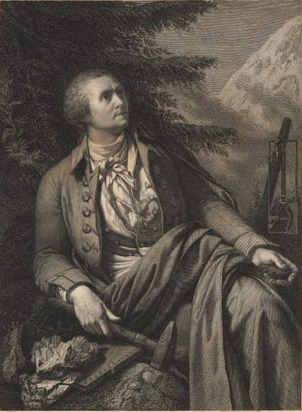 Horace Bénédict de Saussure, engraving by Charles Simon Pradier after Jean Pierre Saint-Ours